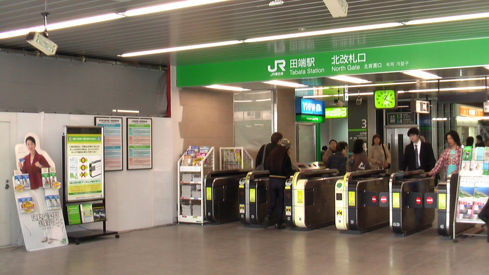 Inside Tabata station, North Exit as of March 2008. (田端駅、北口)